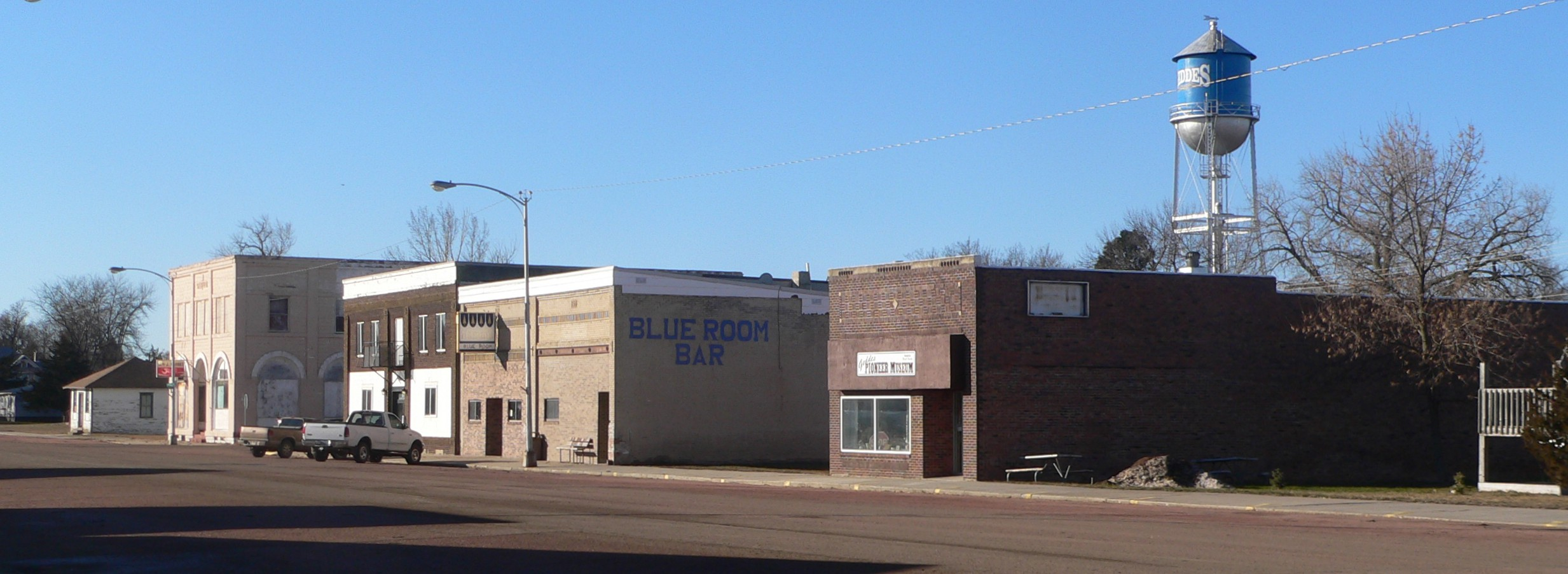 West side of Main Street in Geddes, South Dakota. Camera is facing southwest from about the intersection of Main and Third Street.